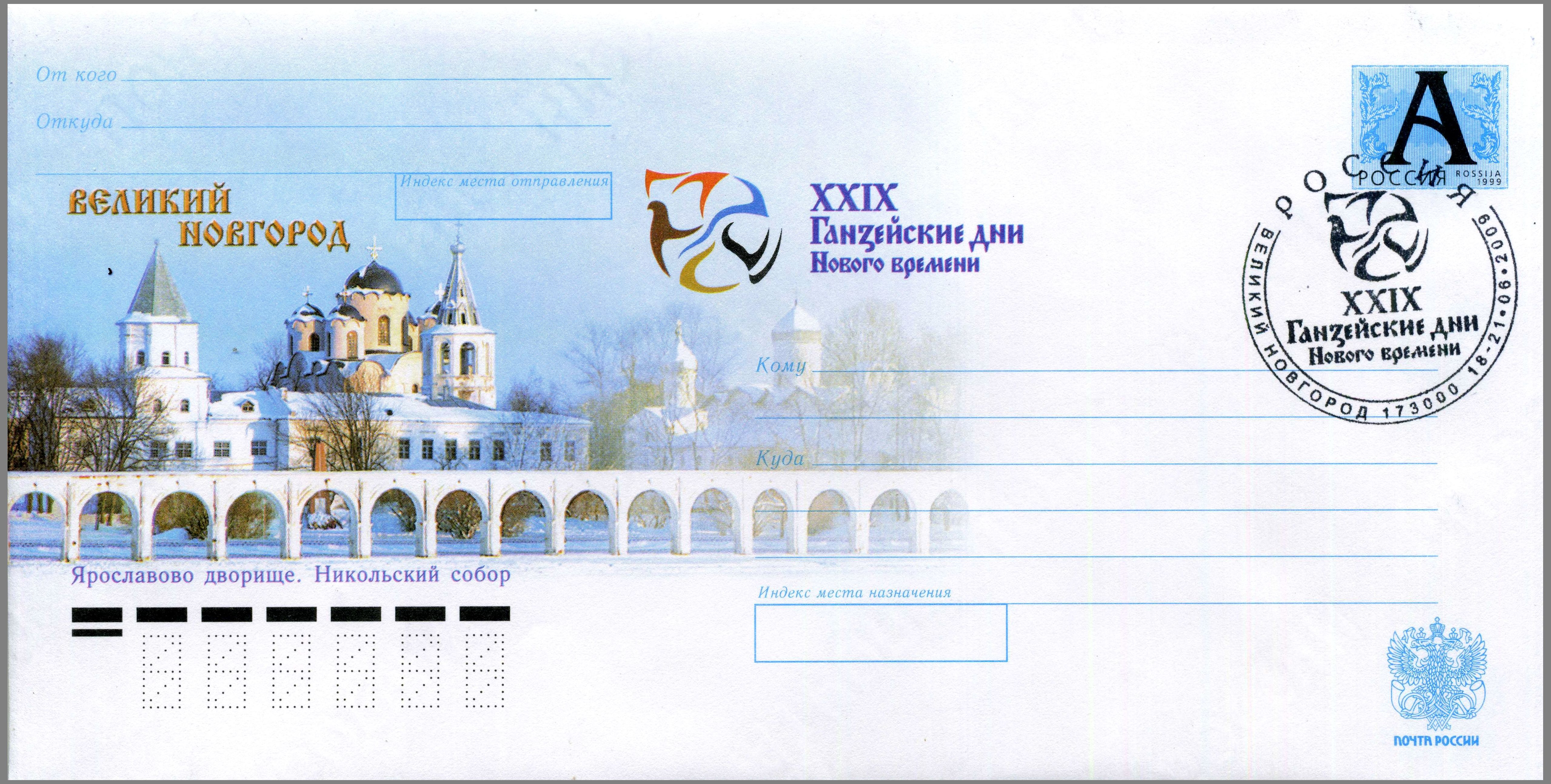 29th International Hanseatic Days of New Time in Veliky Novgorod, Russia, 2009. Illustrated postal stationery envelope with imprinted definitive non-denominated stamp "Letter A", Russia, 2009. The illustration: Yaroslav's Court in V. Novgorod, St. Nicholas Cathedral. The pictorial cancellation, Veliky Novgorod, 18–21 Juny, 2009.